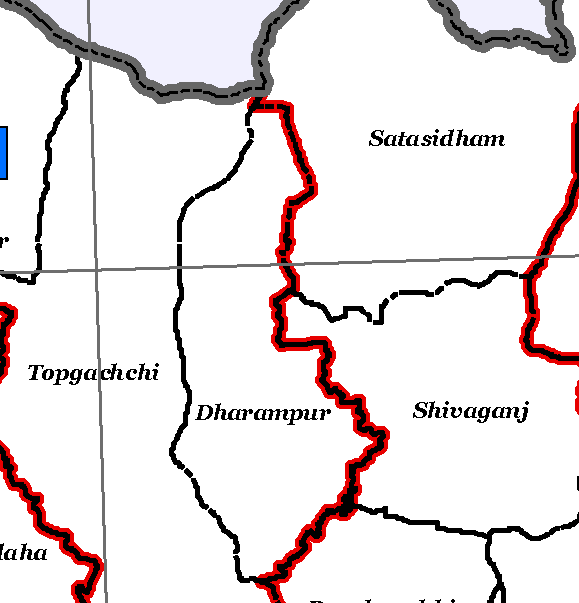 Dharampur jhapa नेपाली: धरमपुर, झापा